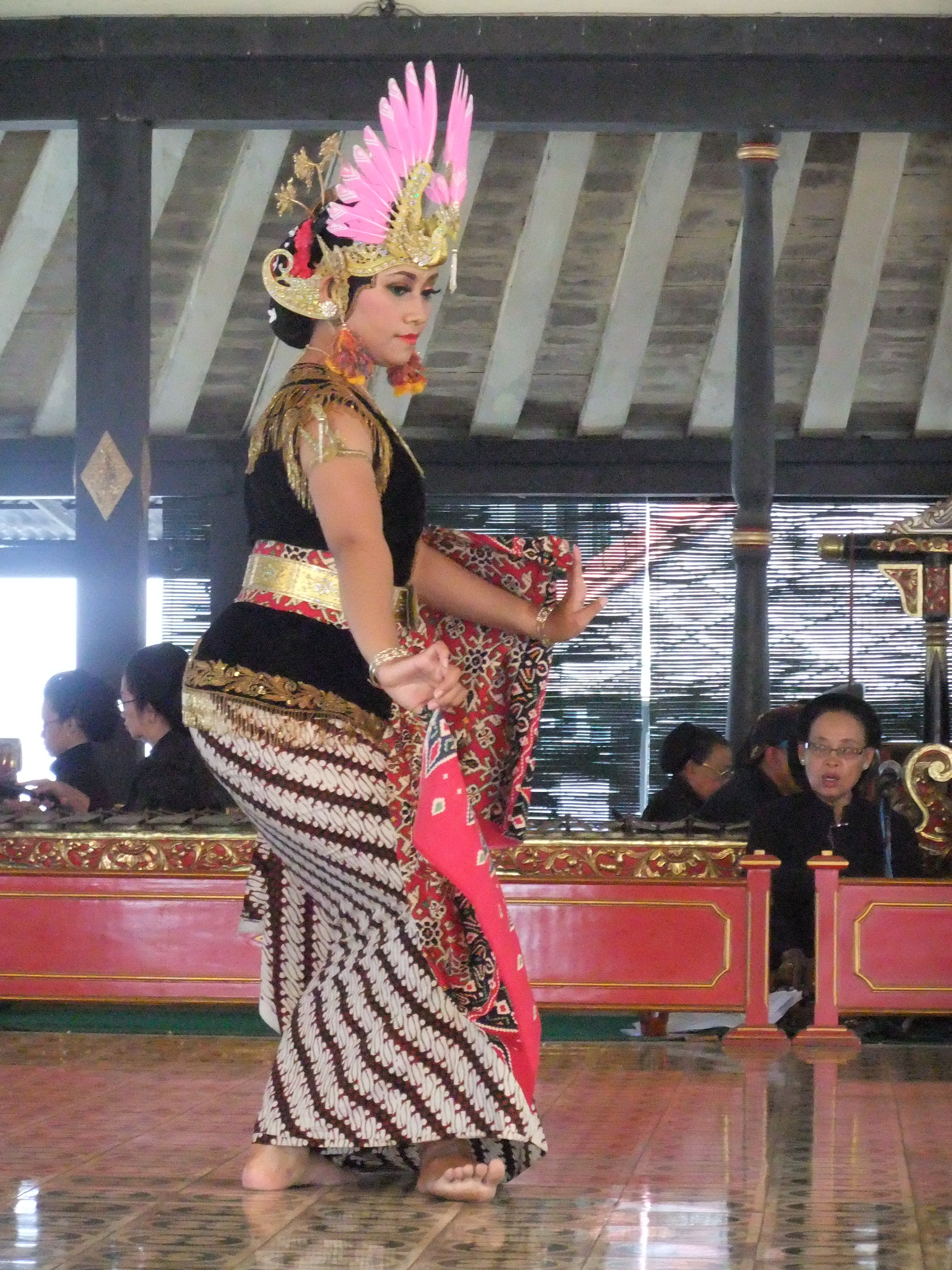 Golek Ayun-Ayun Dance performed at Bangsal Sri Manganti Keraton Yogyakarta